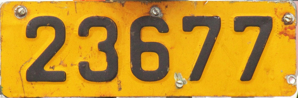 Old Luxembourg license plate